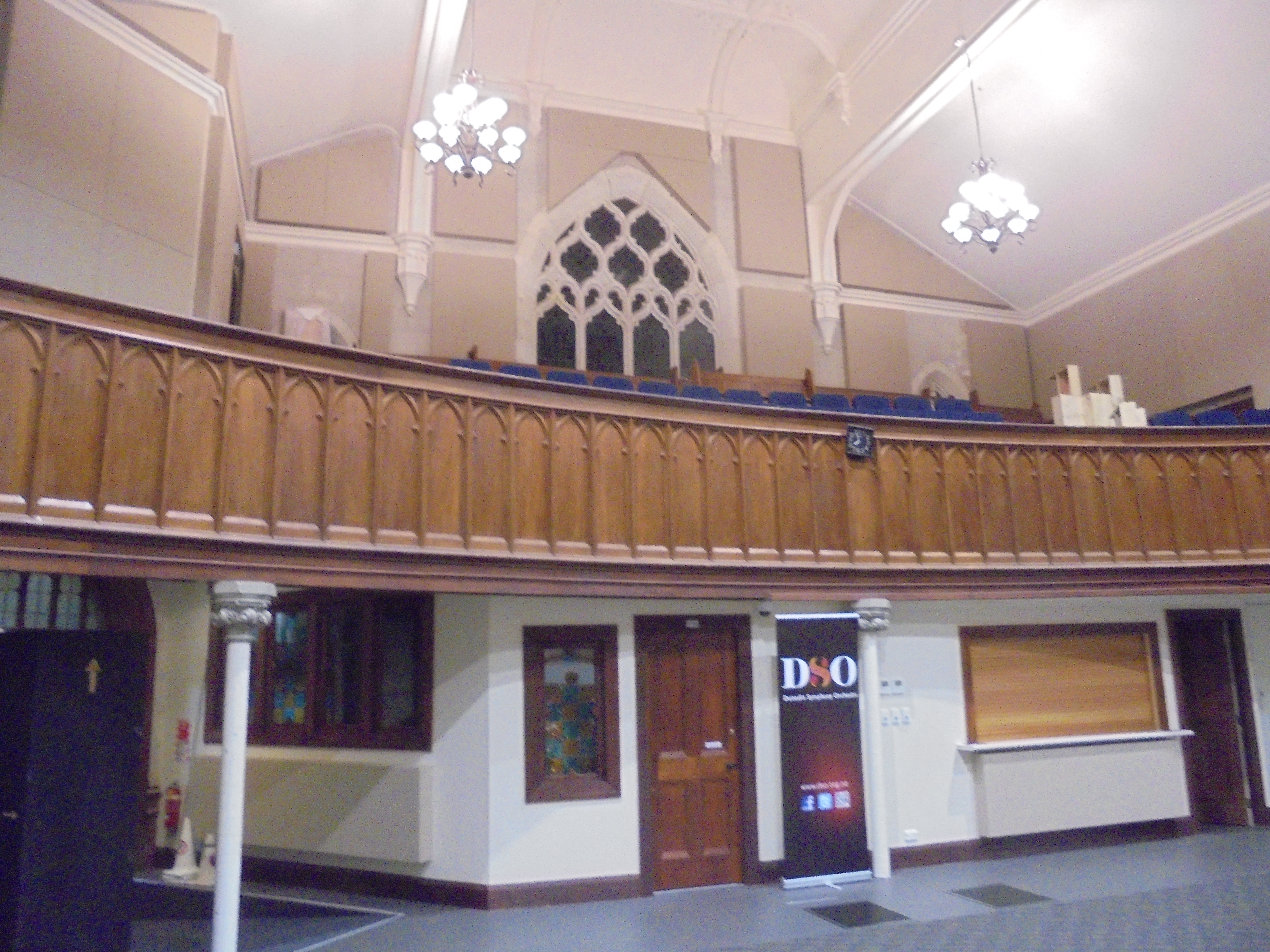 Hanover Hall (formerly Hanover Street Baptist Church) interior, eastern aspect